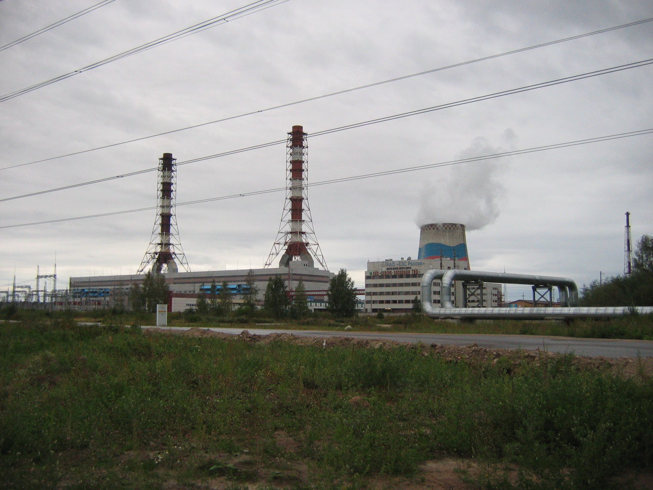 North-West CHP power station (Saint-Petersburg, Russia)